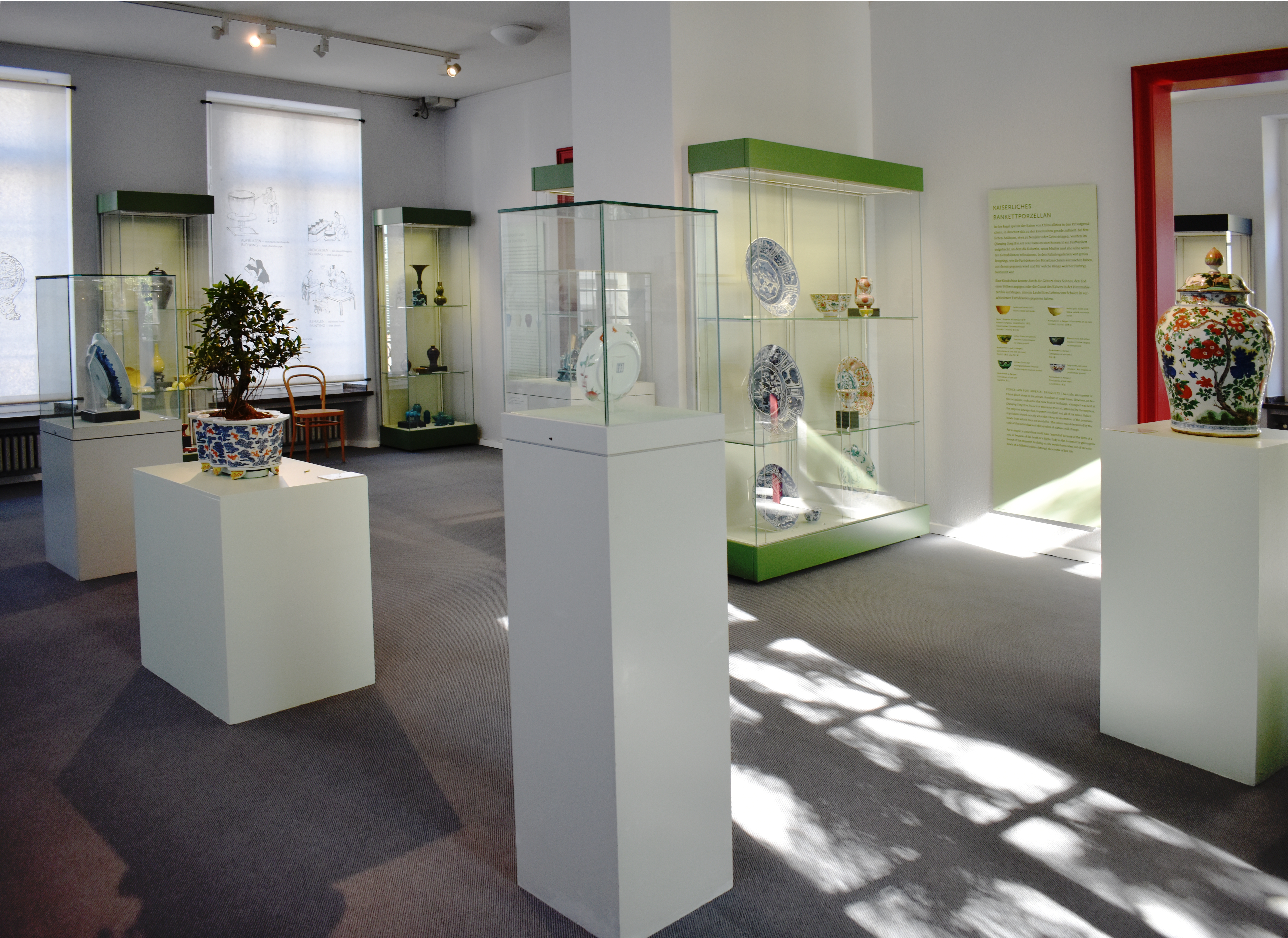 Im Jahr 2018 wurde die Abteilung mit Keramiken aus Thailand, China, Korea und Japan neugestaltet.